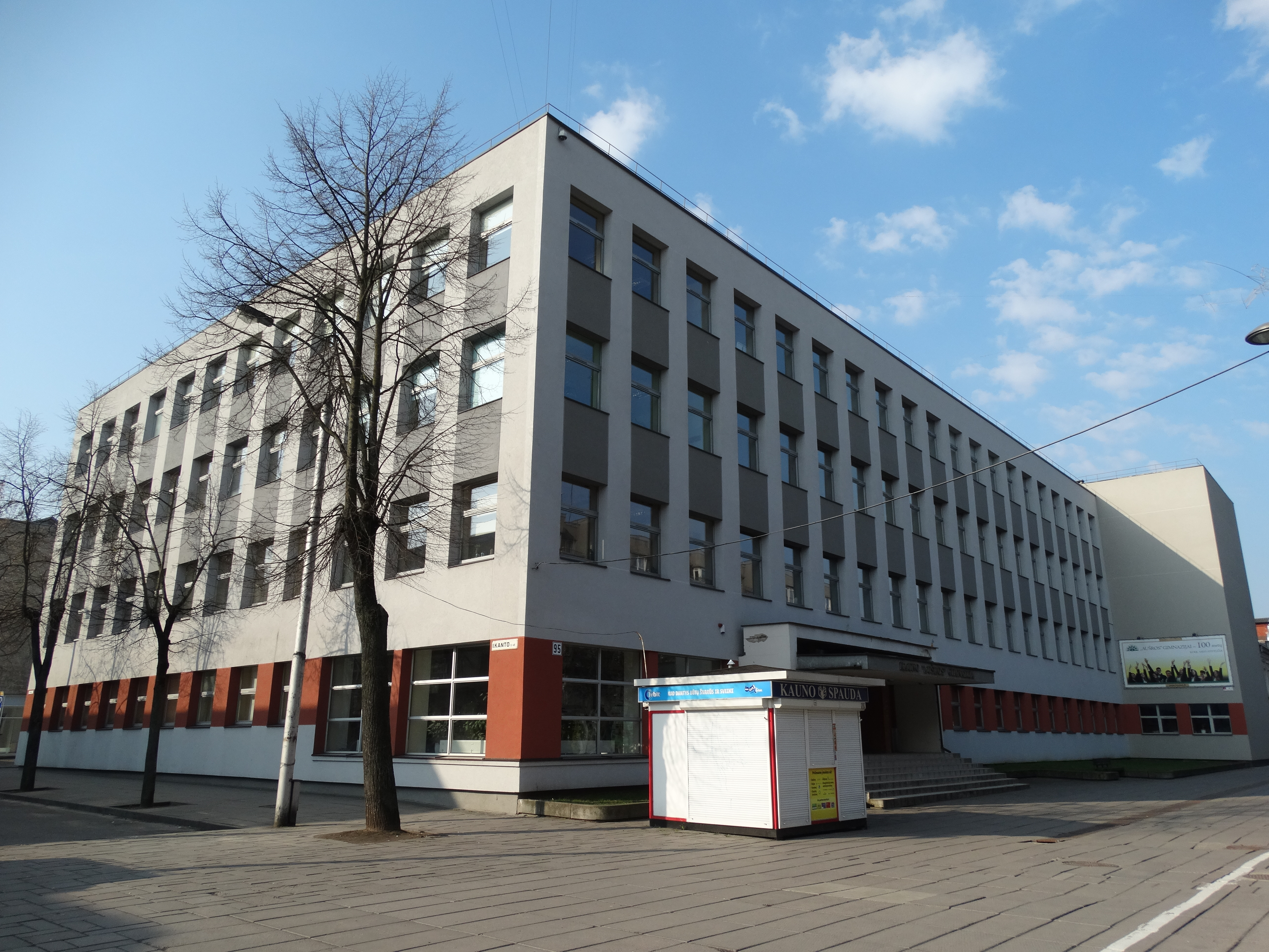 Aušra Gymnasium, Kaunas, Lithuania